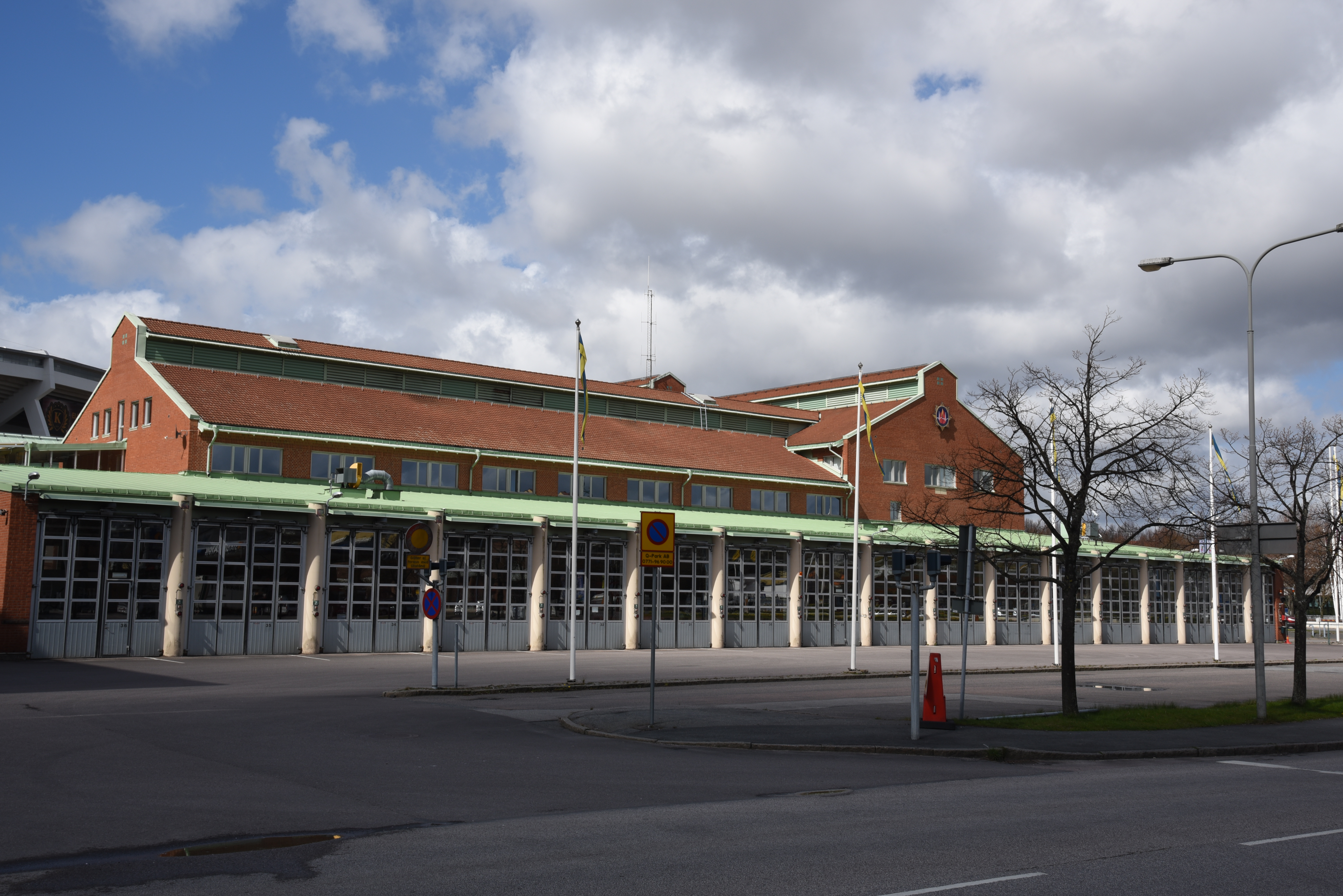 Gårda fire station, the main fire station in Göteborg.